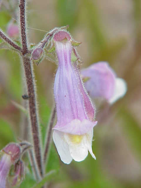 Species: Penstemon gracilis Family: Plantaginaceae Image No. 3